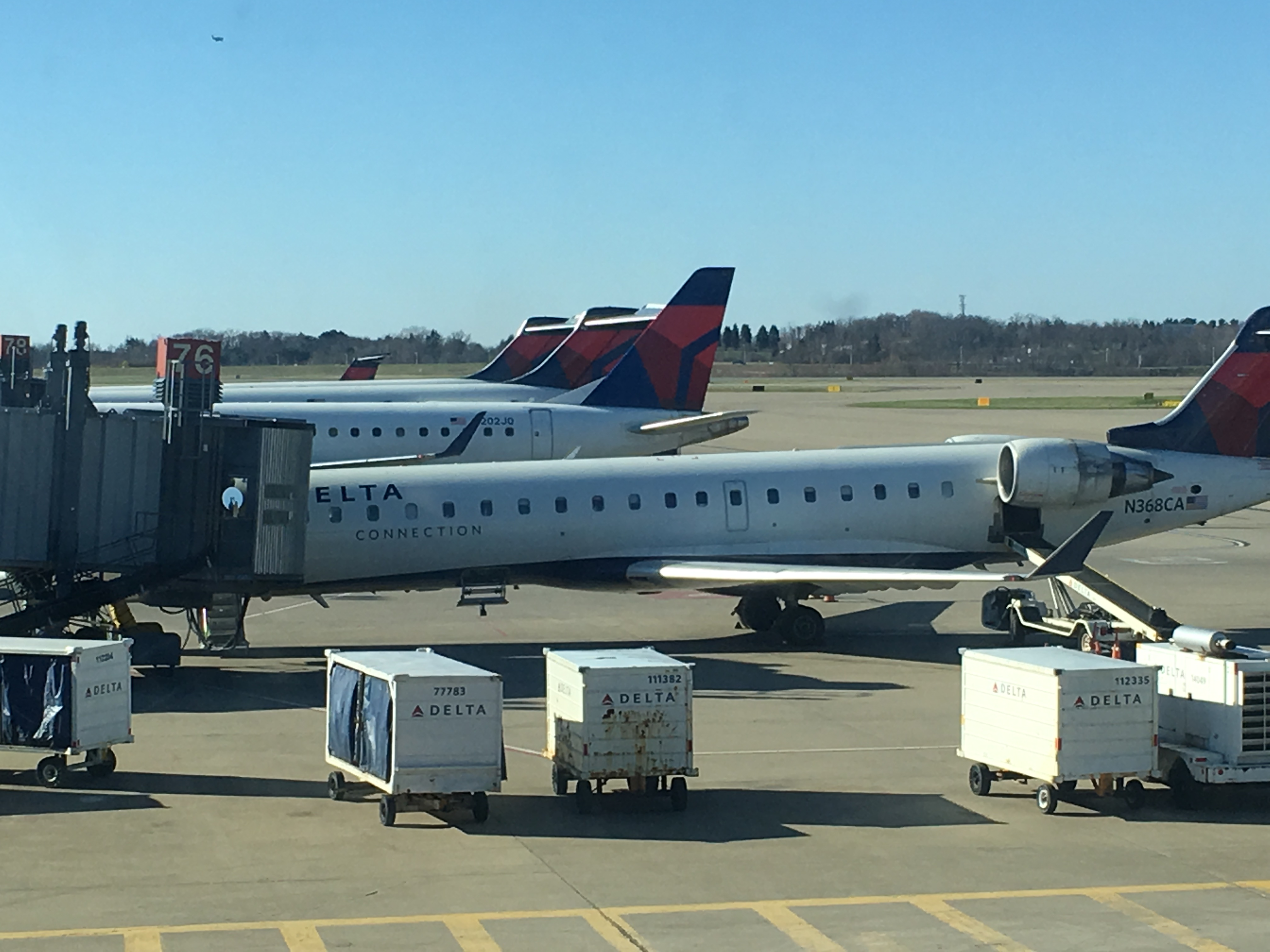 Delta Airlines planes sitting at gates at Pittsburgh Int. Airport.